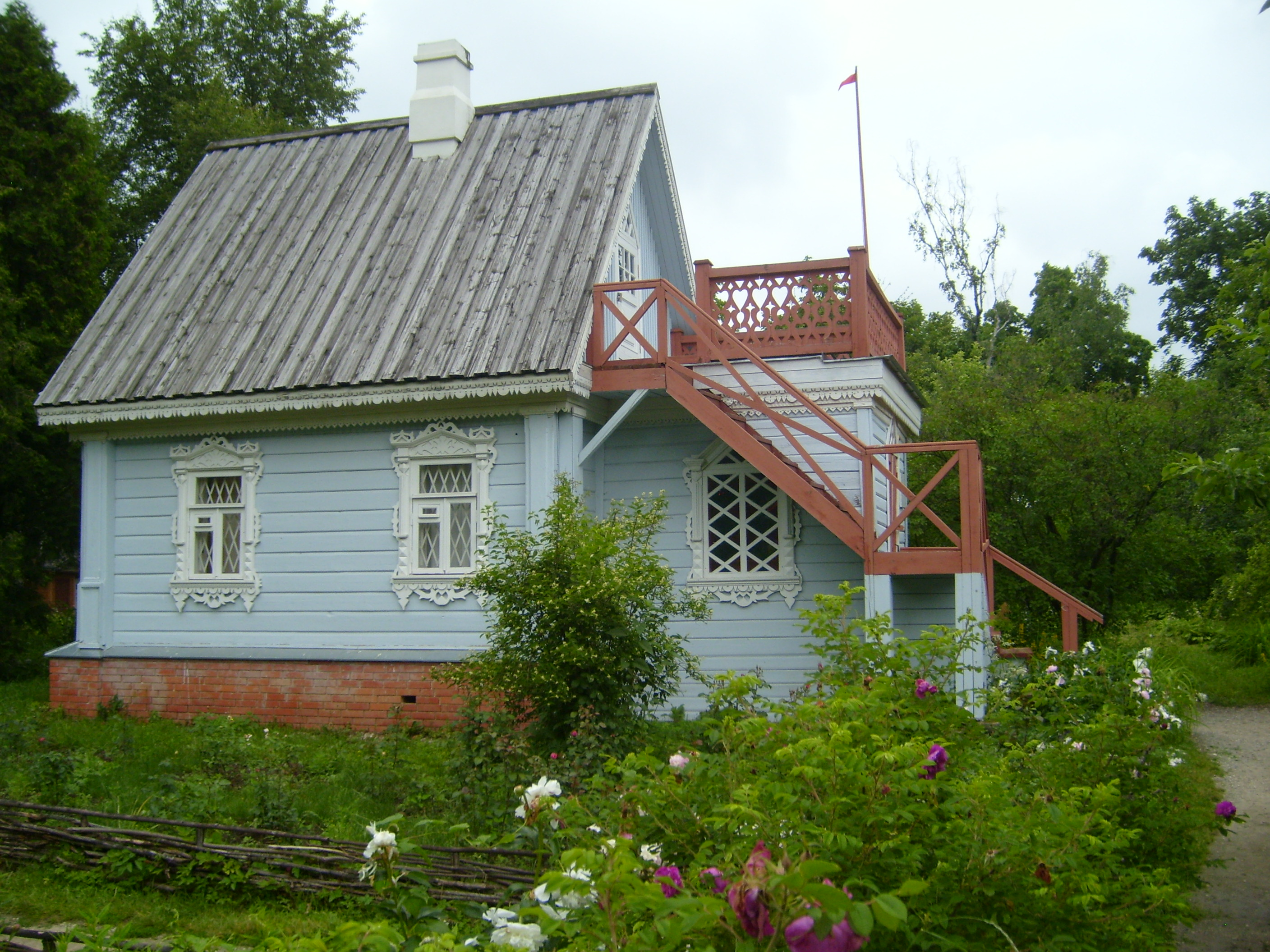 Cottage at Melikhovo where Chekhov wrote "The Sea Gull"